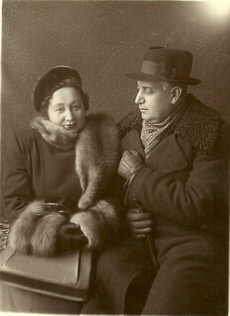 Супружеская чета: Г.К.Алиев и Л.С.Алиева